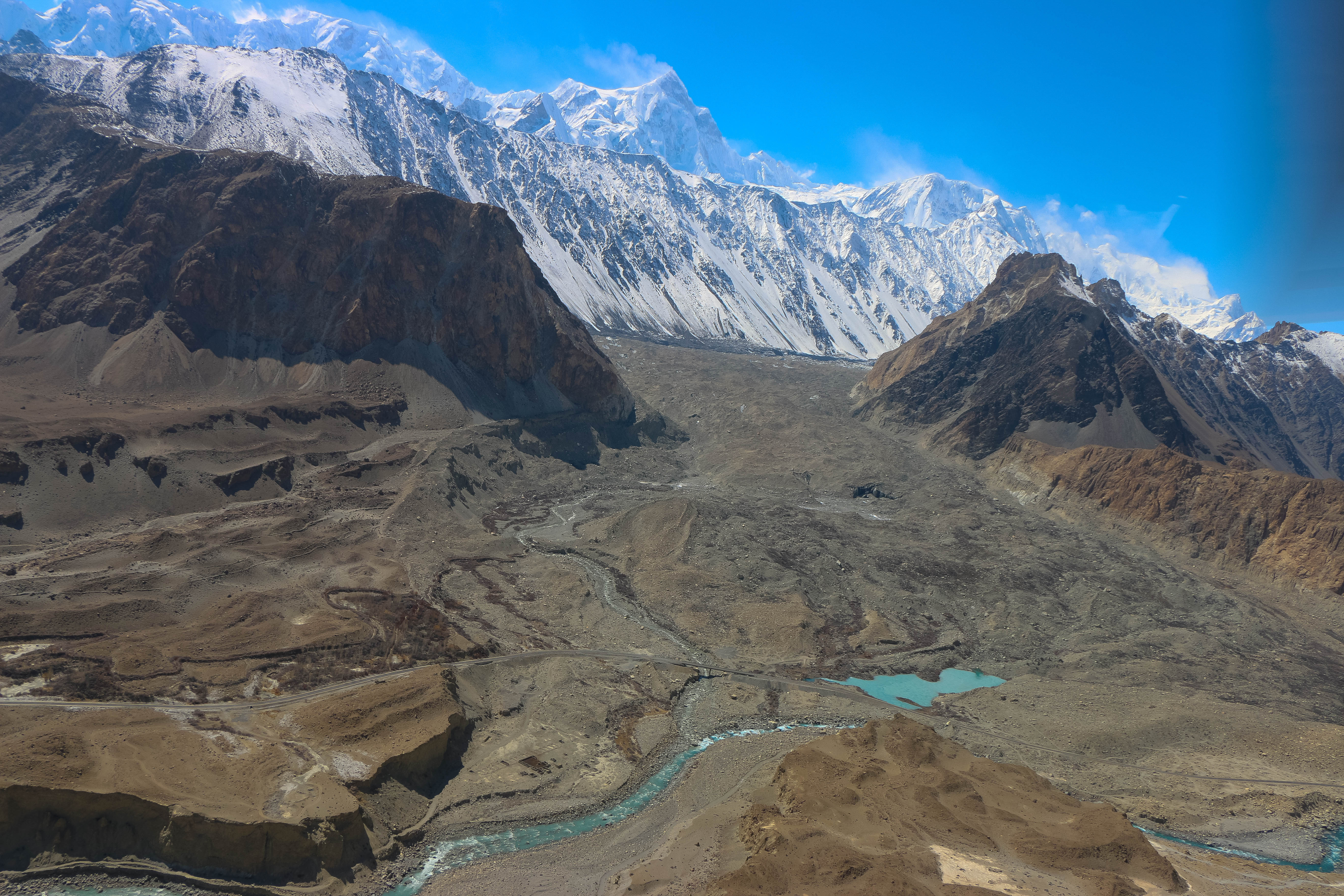 Batura Glacier over shadowing the Karakorum Highway